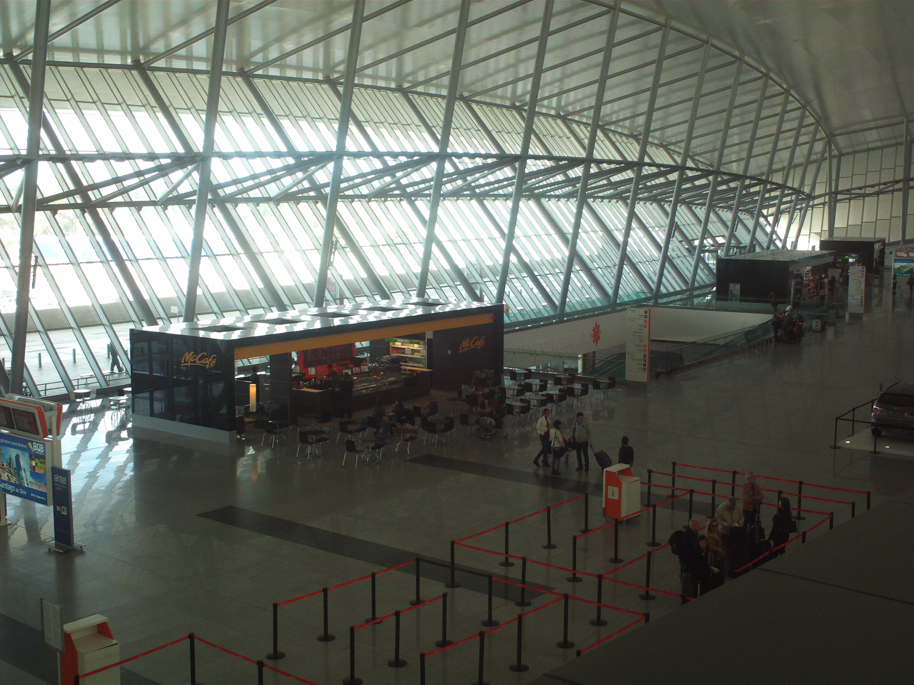 Departures floor at Montevideo Carrasco Airport